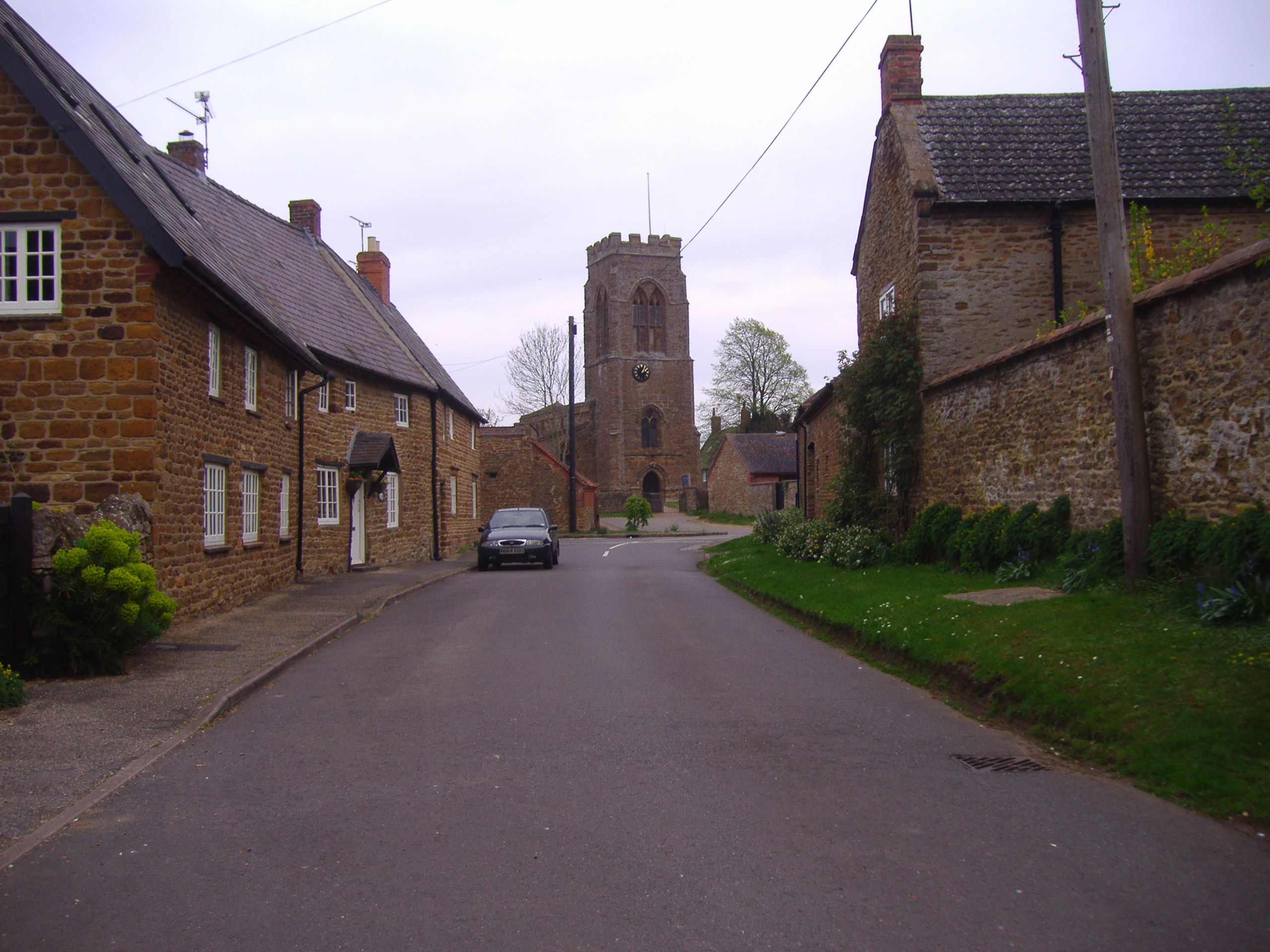 A Digital Photograph of Staverton Village Parish Church